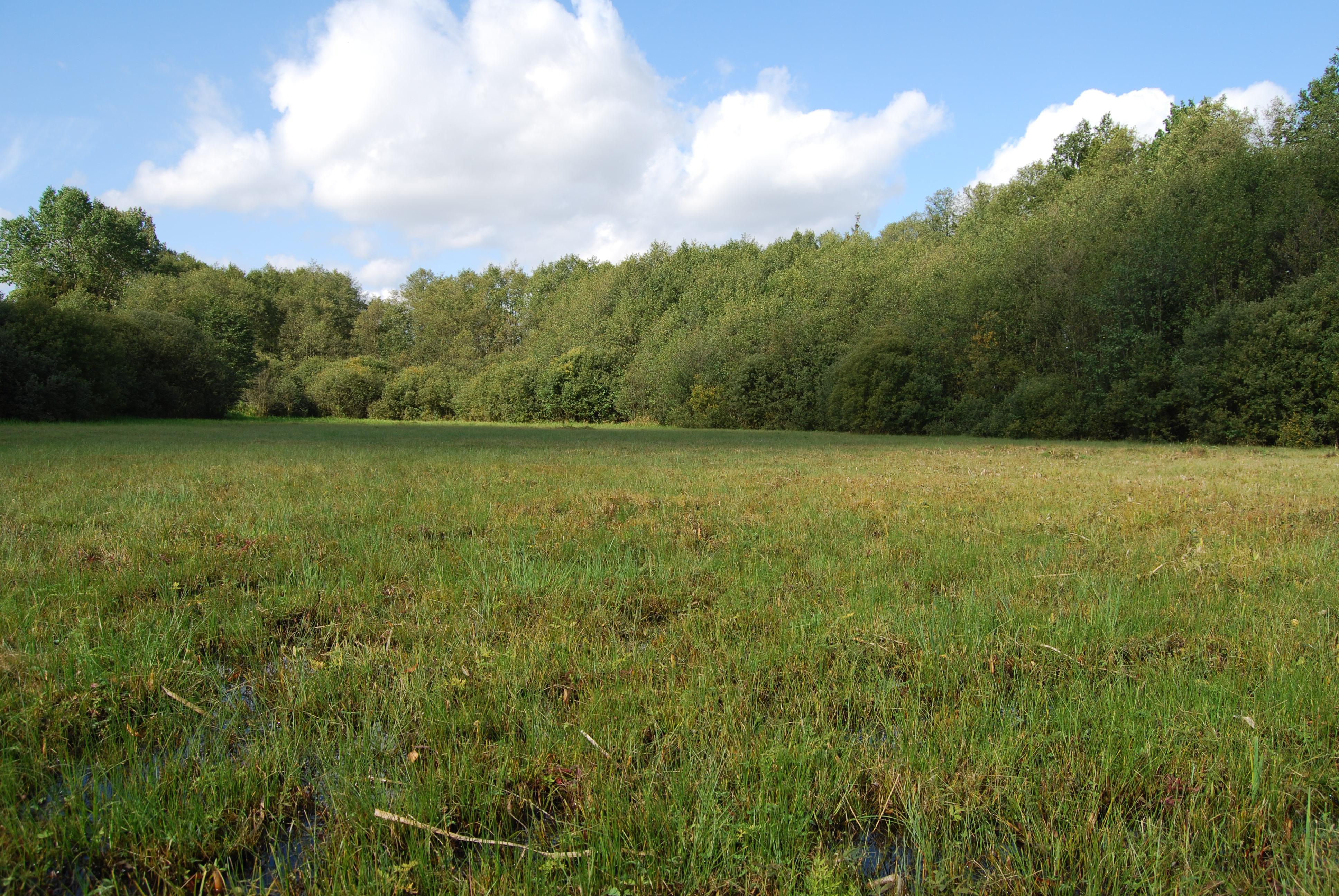 Natural monument Dolejší pond, Strakonice District, Czech Republic.